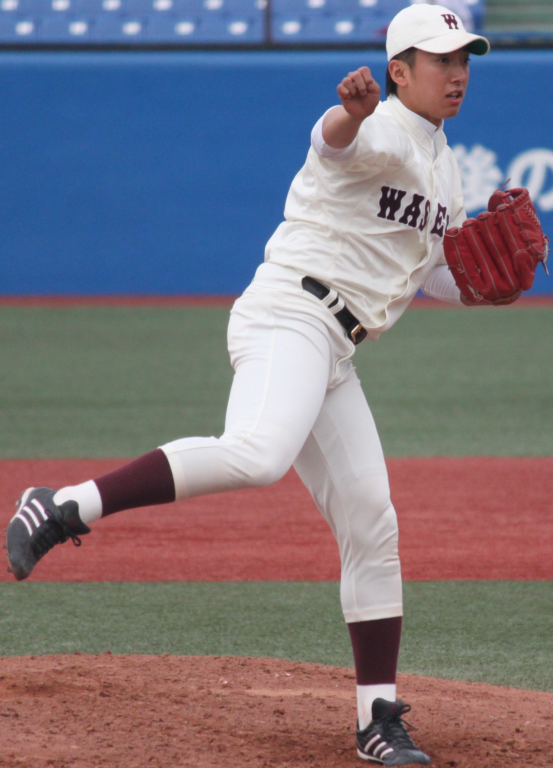 Takaaki Yokoyama, pitcher of the Waseda University Baseball Club, at Meiji Jingu Stadium.